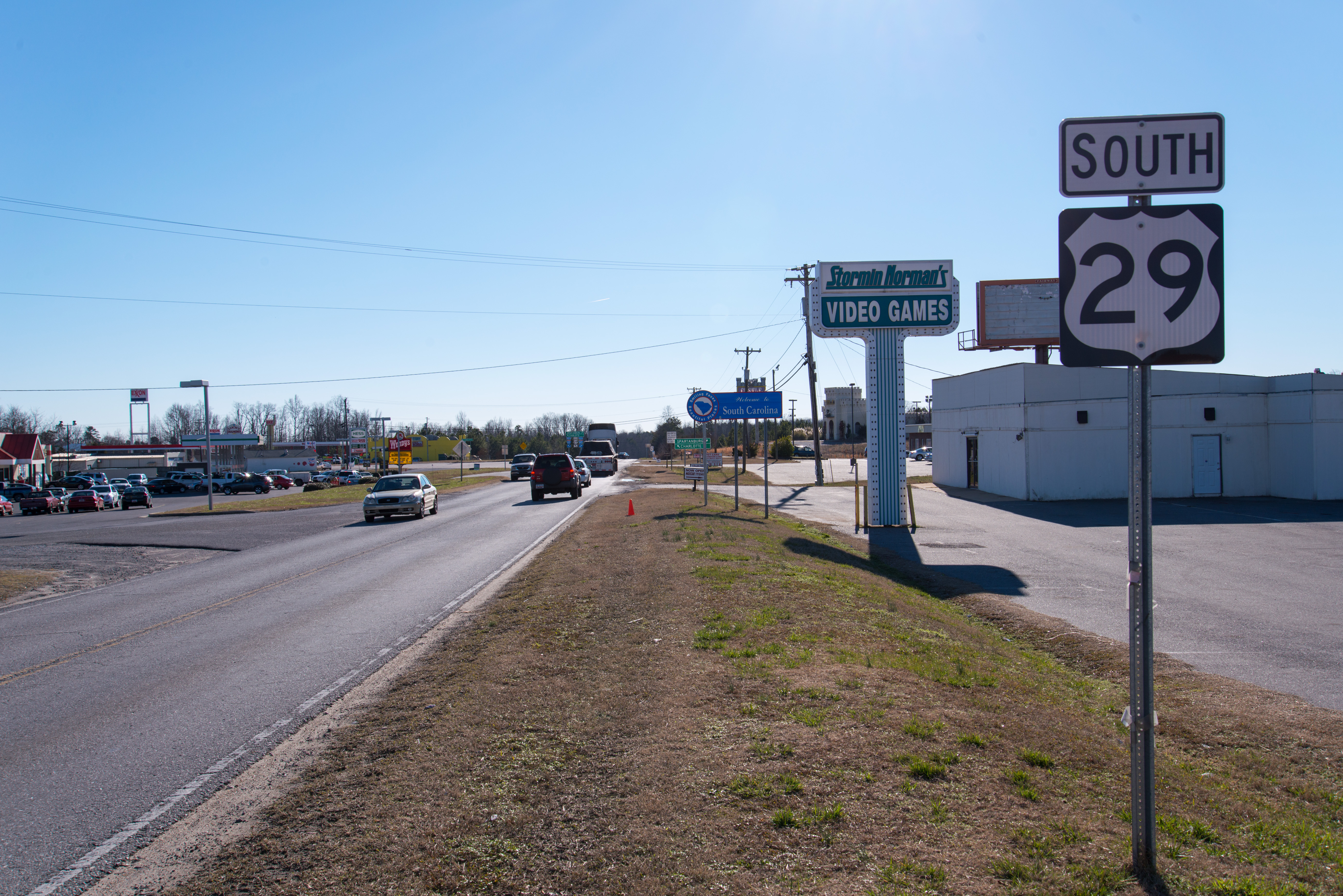 First sign of southbound U.S. Route 29 in Blacksburg, South Carolina.